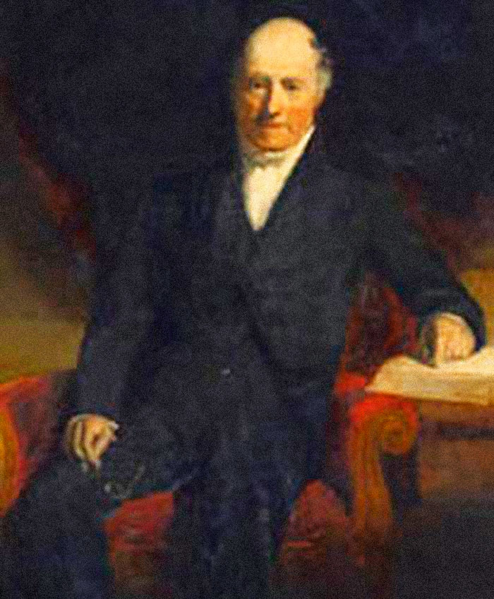 Portrait of George Green,a shipbuilder from Poplar